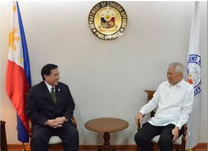 Tanasak Patimapragorn made an official visit to the Philippines from April 06 to 07